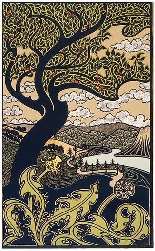 Tree & Valley